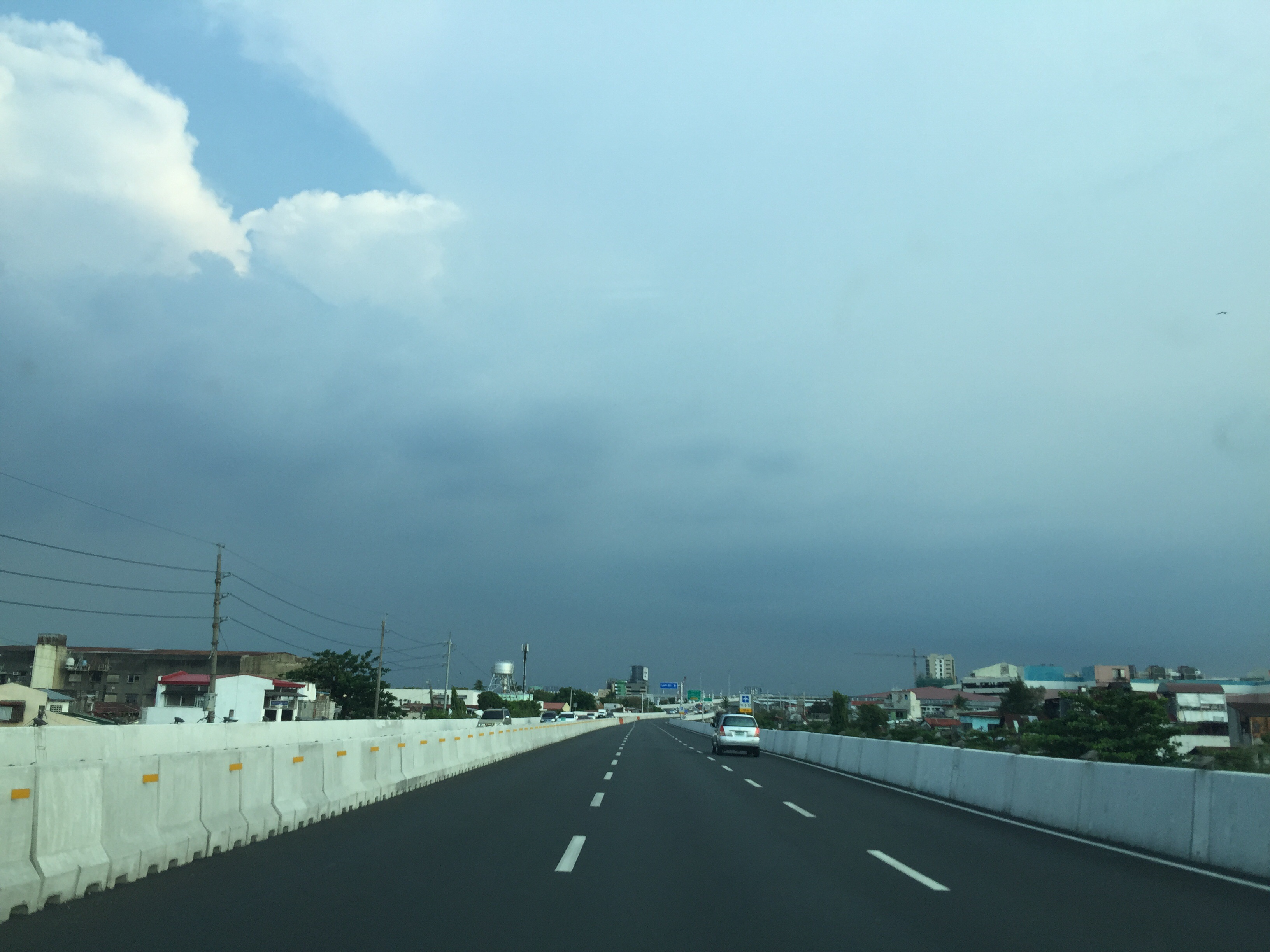 On the southbound lanes of the NAIA Expressway in Pasay, Metro Manila, Philippines